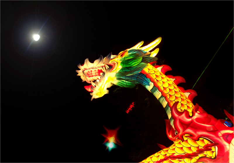 부처님 오신 날의 연등축제에서 용 모형의 등, Dragon Lantern for Budda's Birthday Festival.